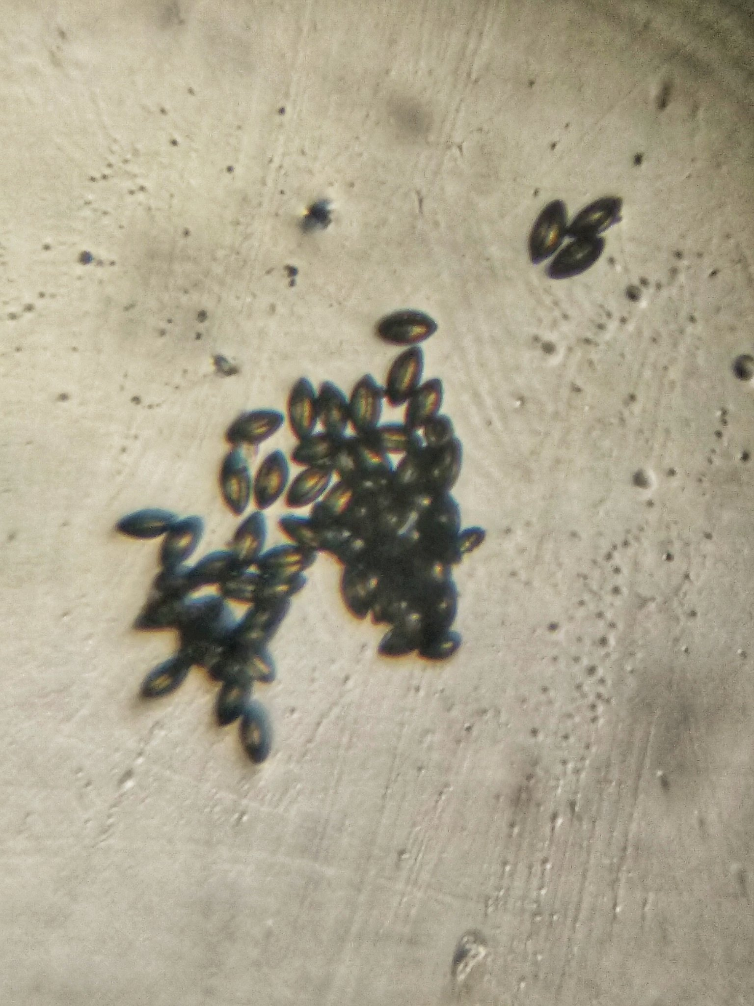 Pollens of Senegalia catechu